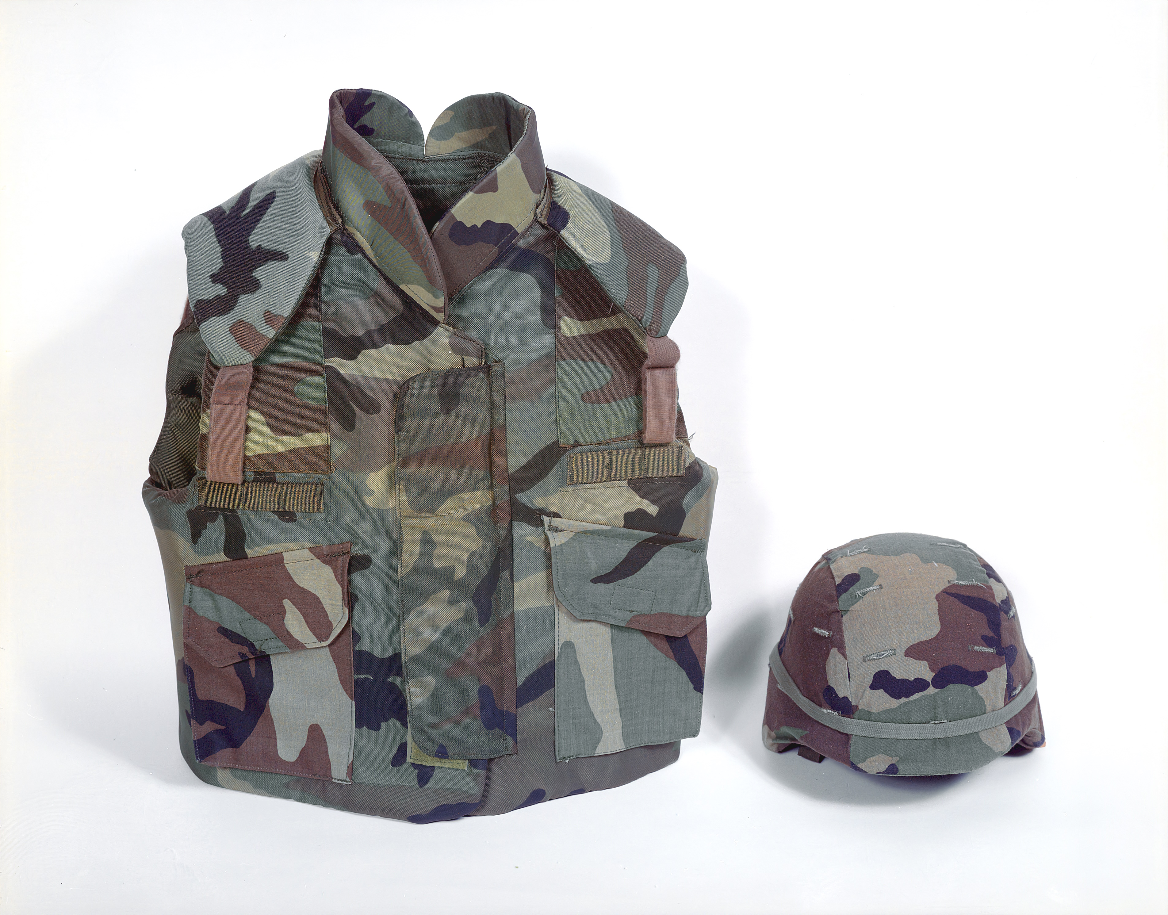 PASGT vest and helmet, 1991